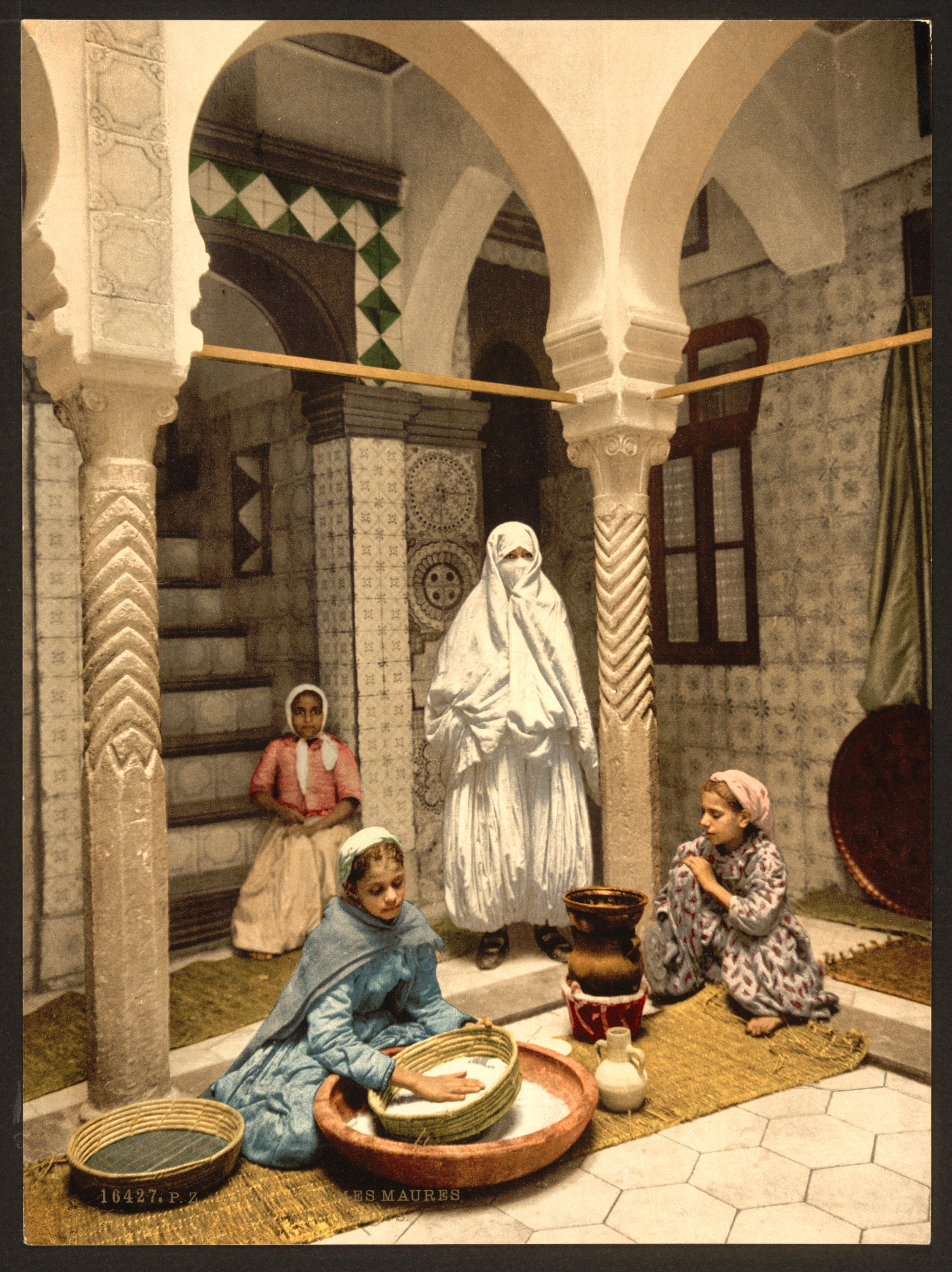 Luce Ben Aben, Moorish women preparing couscous, Algiers, Algeria